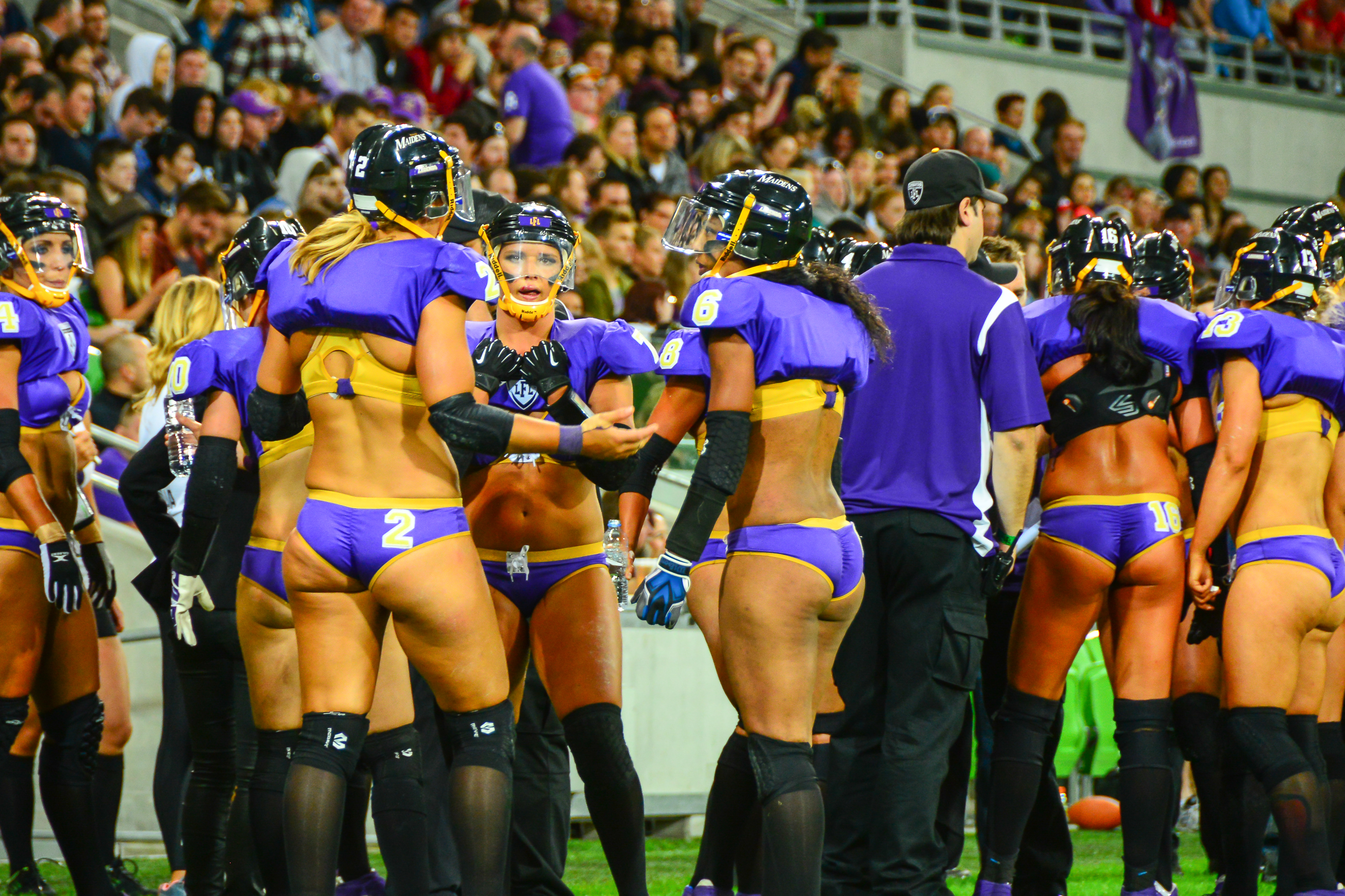 Legends Football League